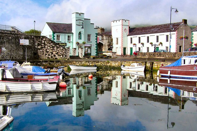 Harbour reflections Carnlough Harbour after the rain.